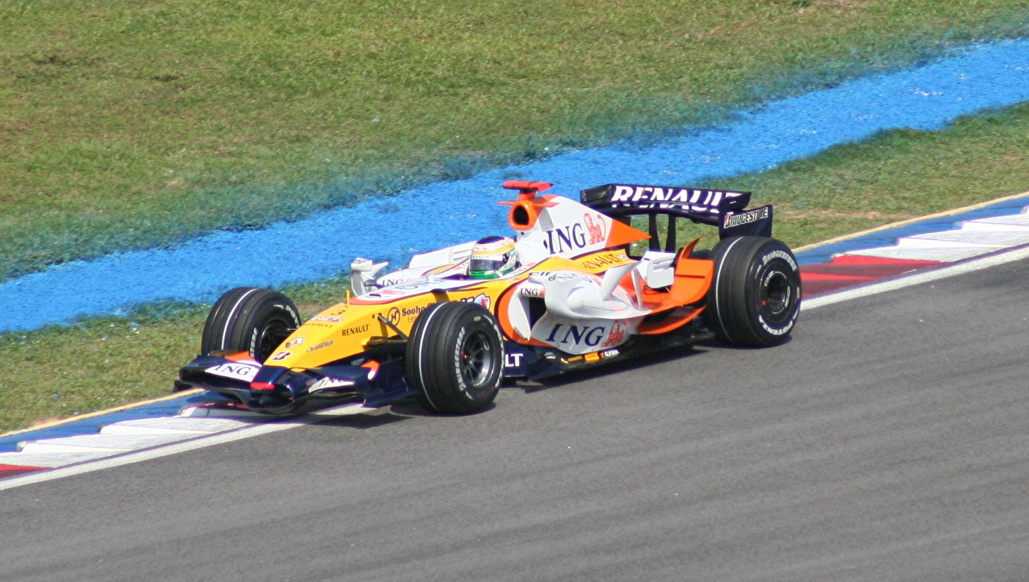 Giancarlo Fisichella driving for Renault F1 at the 2007 Malaysian Grand Prix.